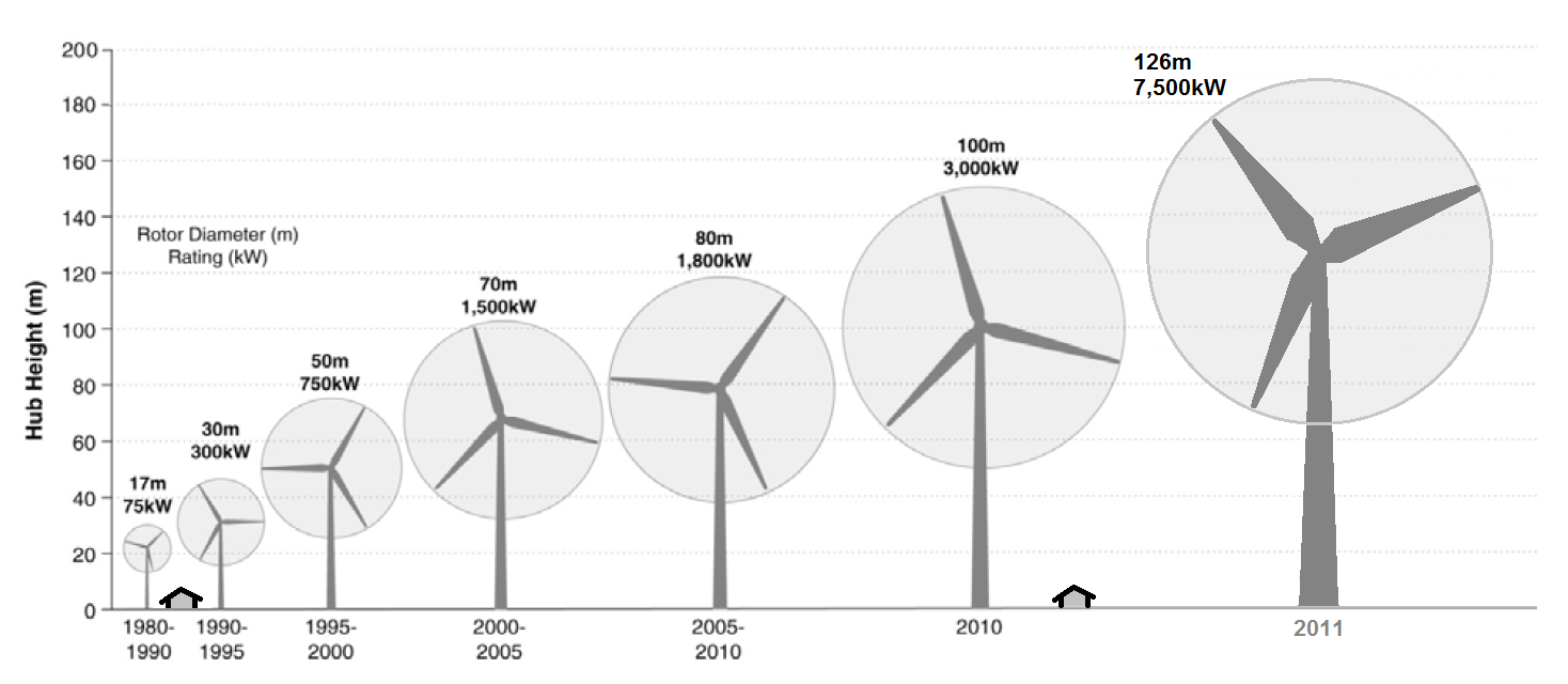 Wind turbine size increase 1980-2011, showing relative size of the swept area, as turbine size increased from 75 kW to 7.5 MW.